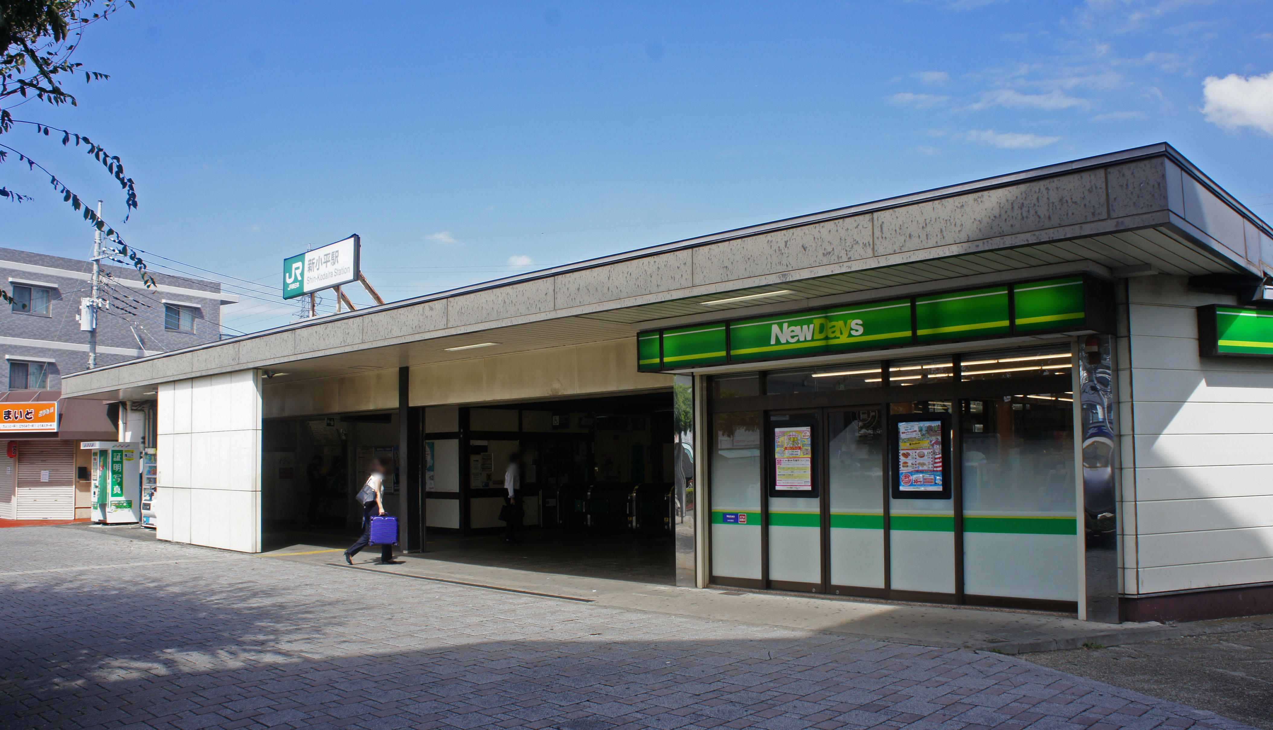 Station building of JR Musashino-Line Shin-Kodaira Station